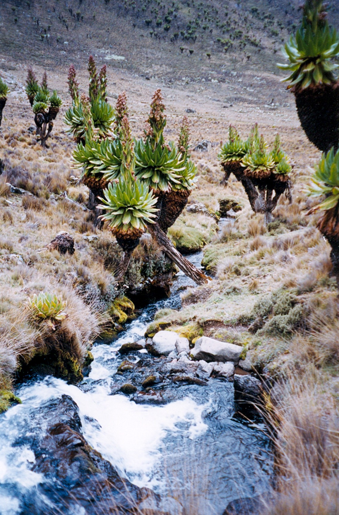 Giant Senecio flowers, Mount Kenya, Kenya.